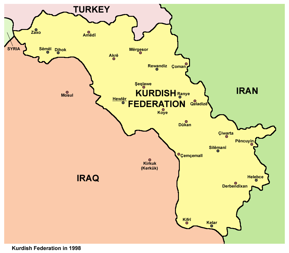 Map of Kurdish Federation (Southern Kurdistan) in 1998.